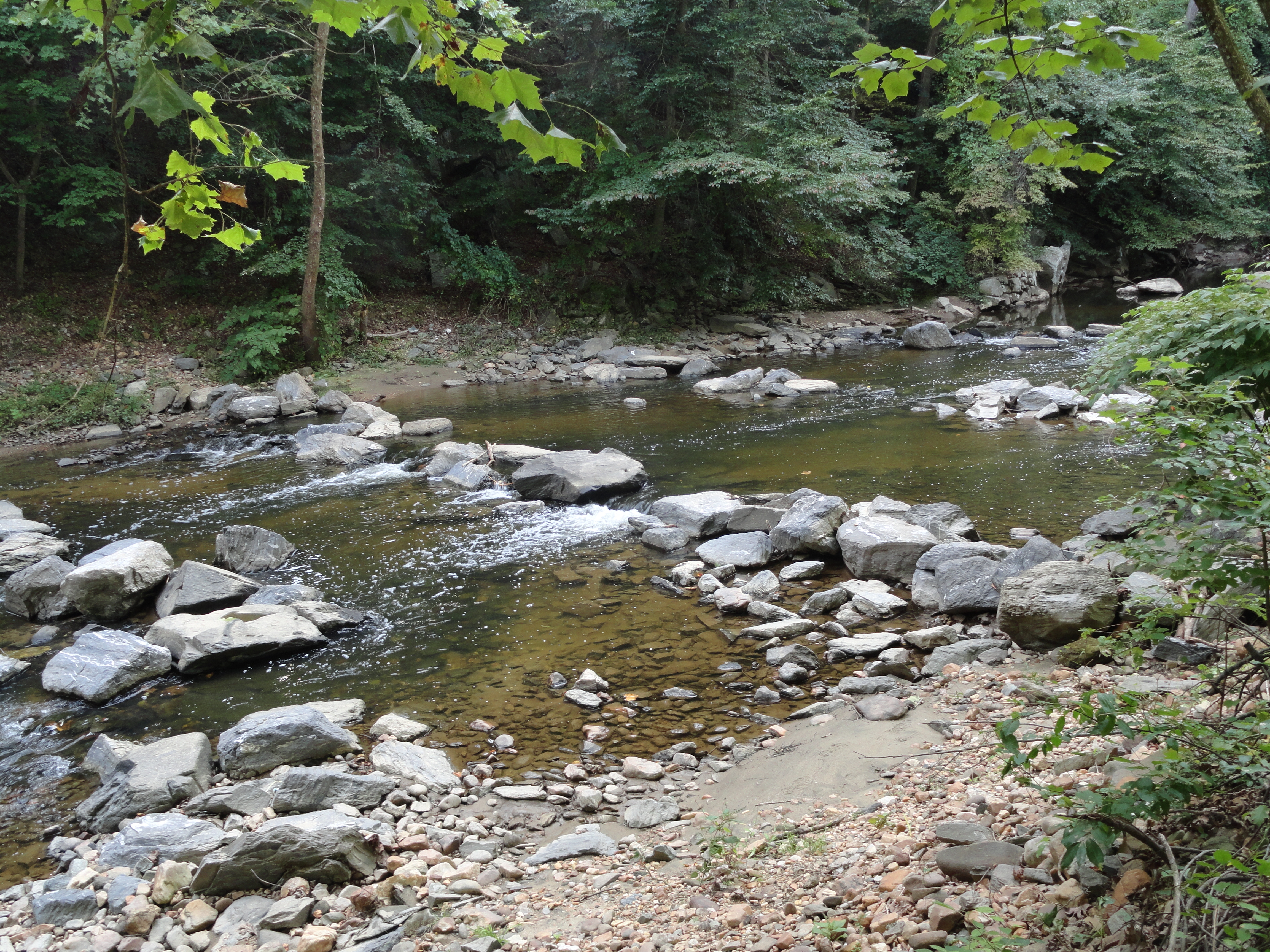 View of boulder step pools installed in Rock Creek, Washington, D.C. as part of a stream restoration project. The pools raise the water level and allow fish (blueback herring and alewife) to swim over a partially-submerged sewer pipe which crosses the creek.)